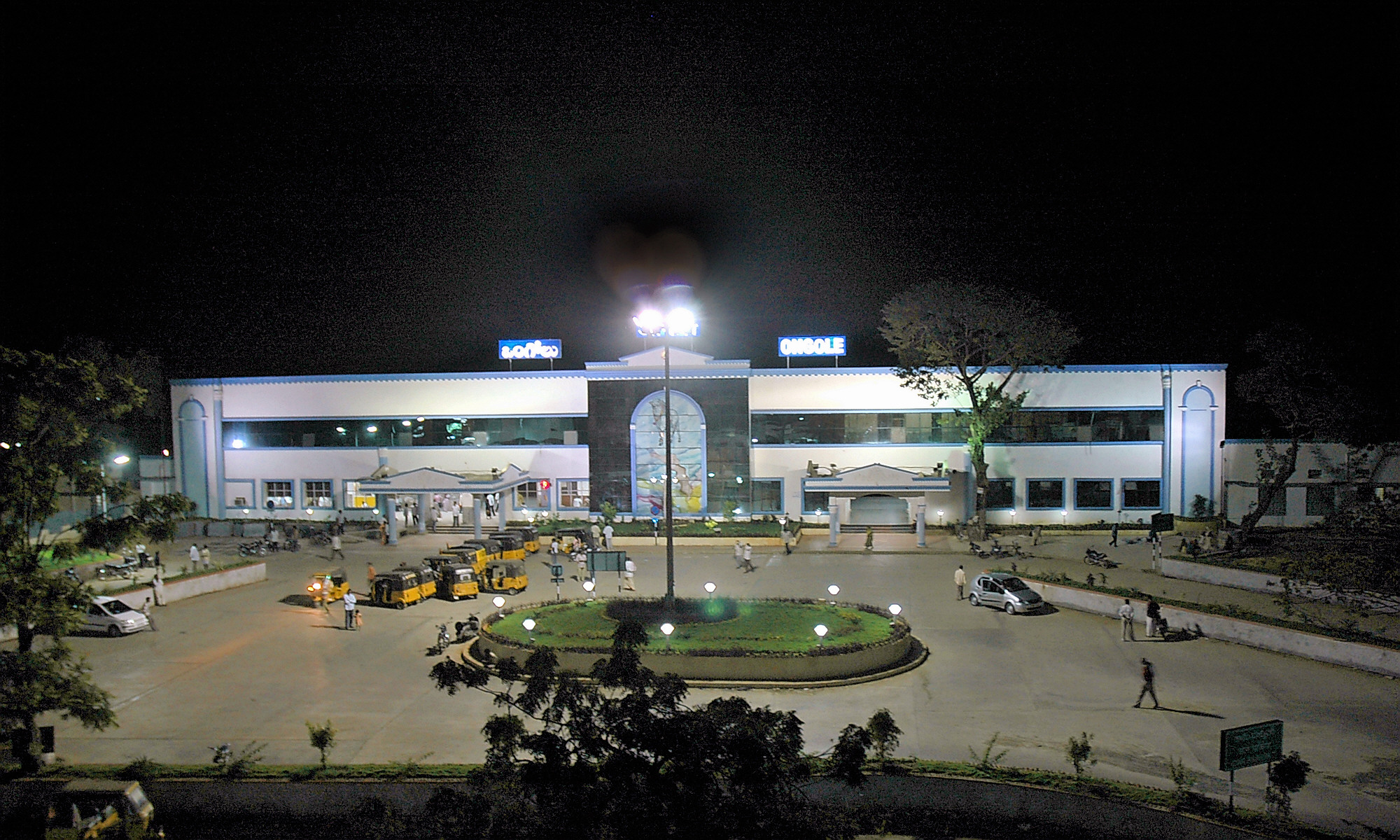 own work